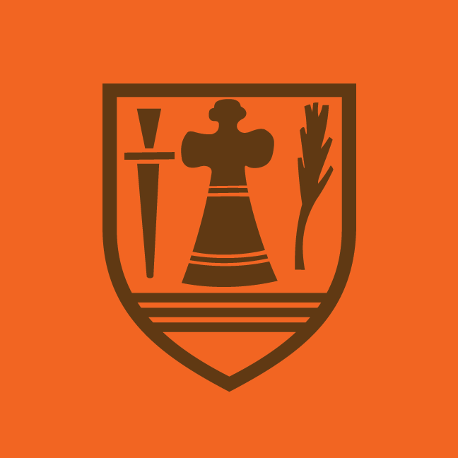 Flag of Požarevac